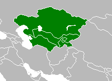 Participating countries of Central Asian Games